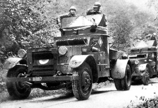 White-Laffly AMD 50 armoured car [81887, 11e chasseurs à cheval, c. 1938]